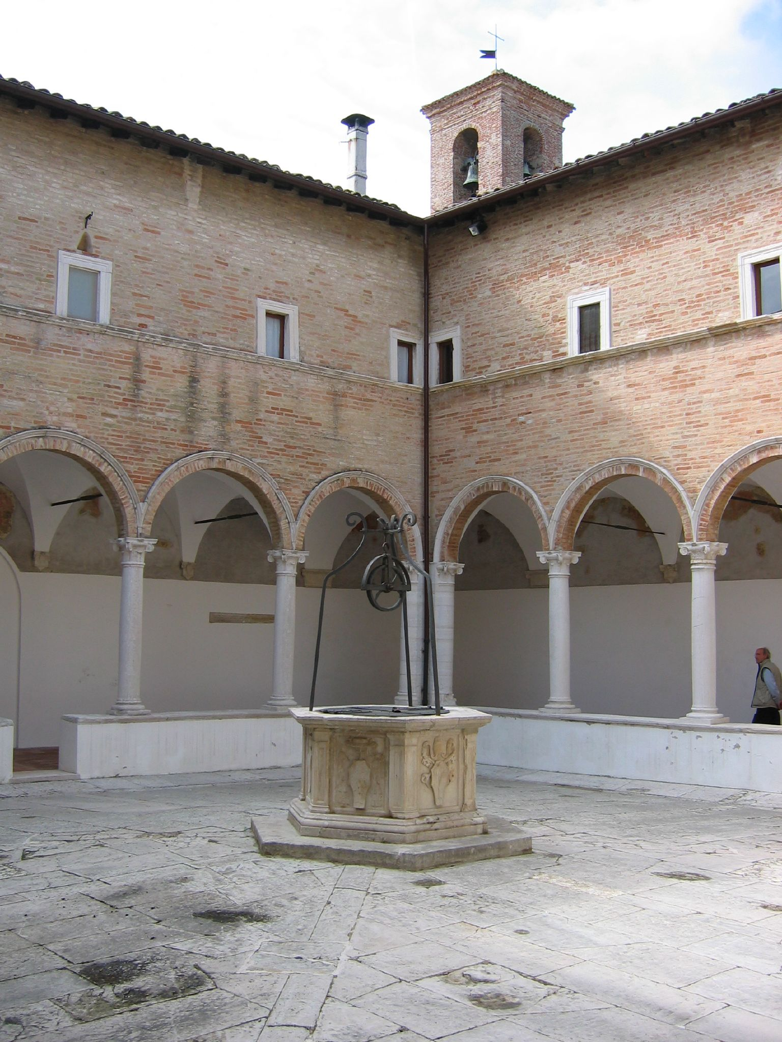 Senigallia, Marche, Italia